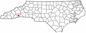 Category:North Carolina Dot Maps